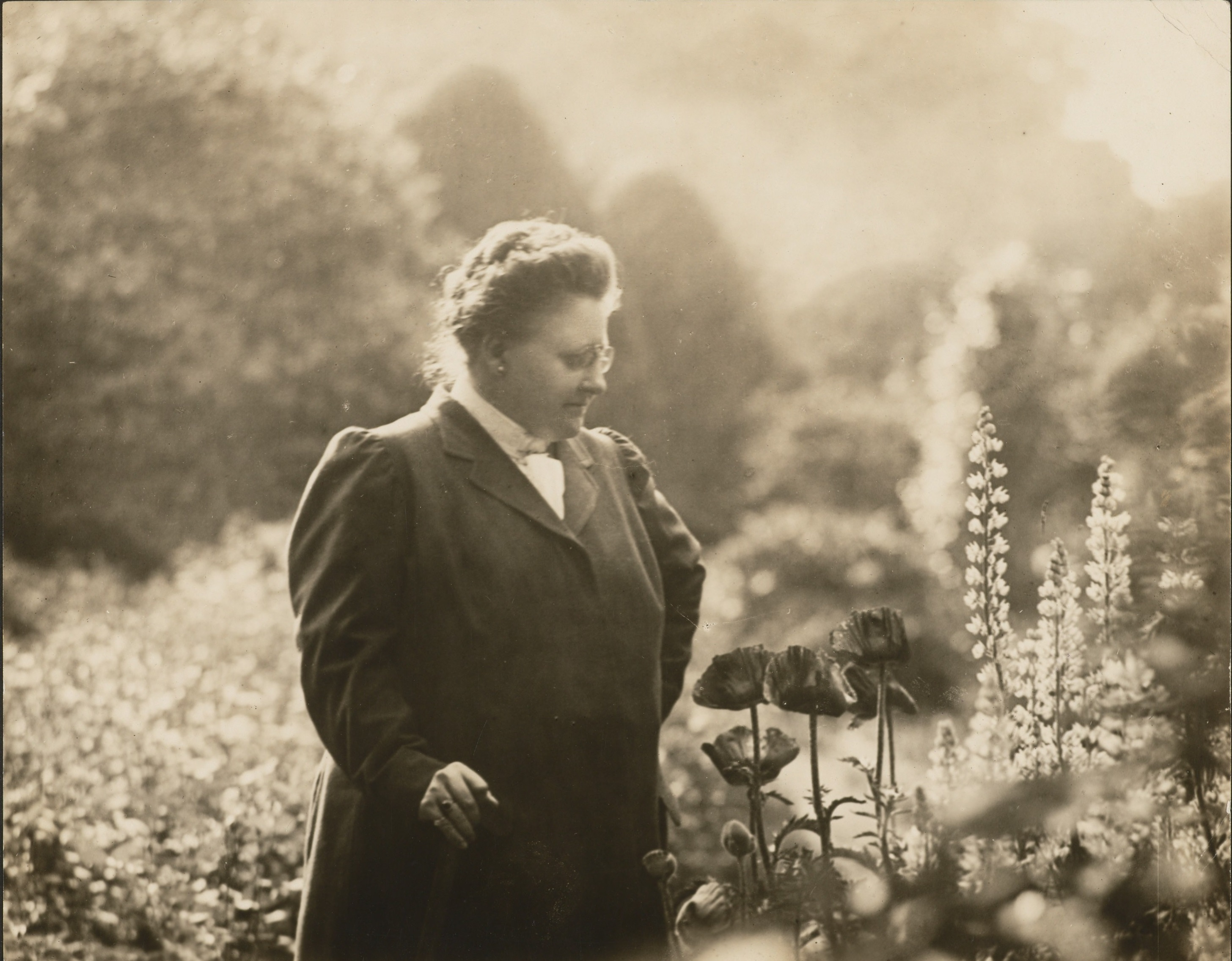 Photograph of Amy Lowell (1874-1925) at Sevenels, photographed by Bachrach. MS Lowell 62 (5), Houghton Library, Harvard University